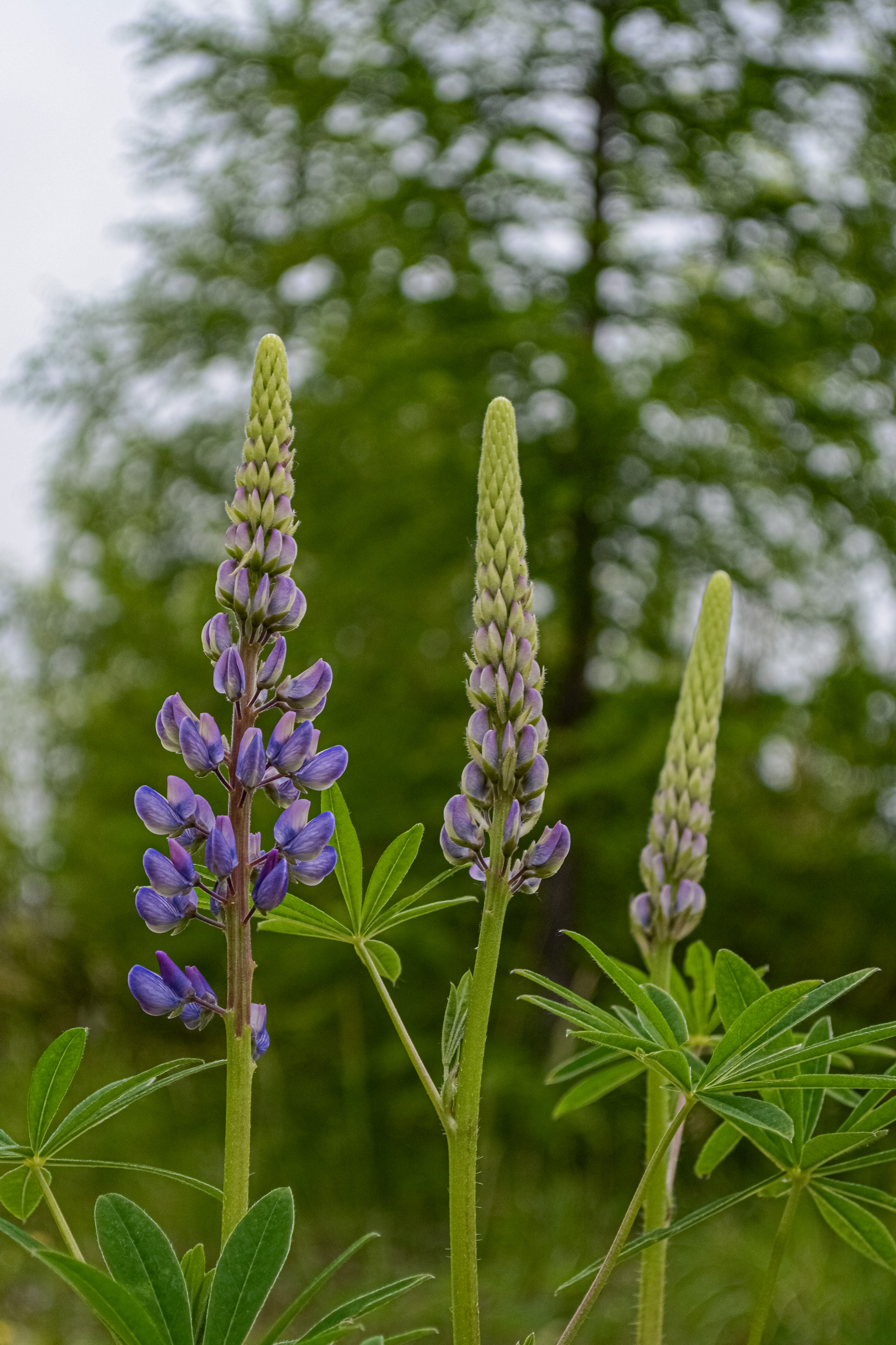 Large-leaved lupine (Lupinus polyphyllus)